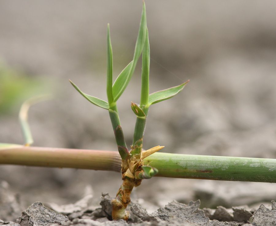 Phragmites in Mekszikópuszta, Hungary